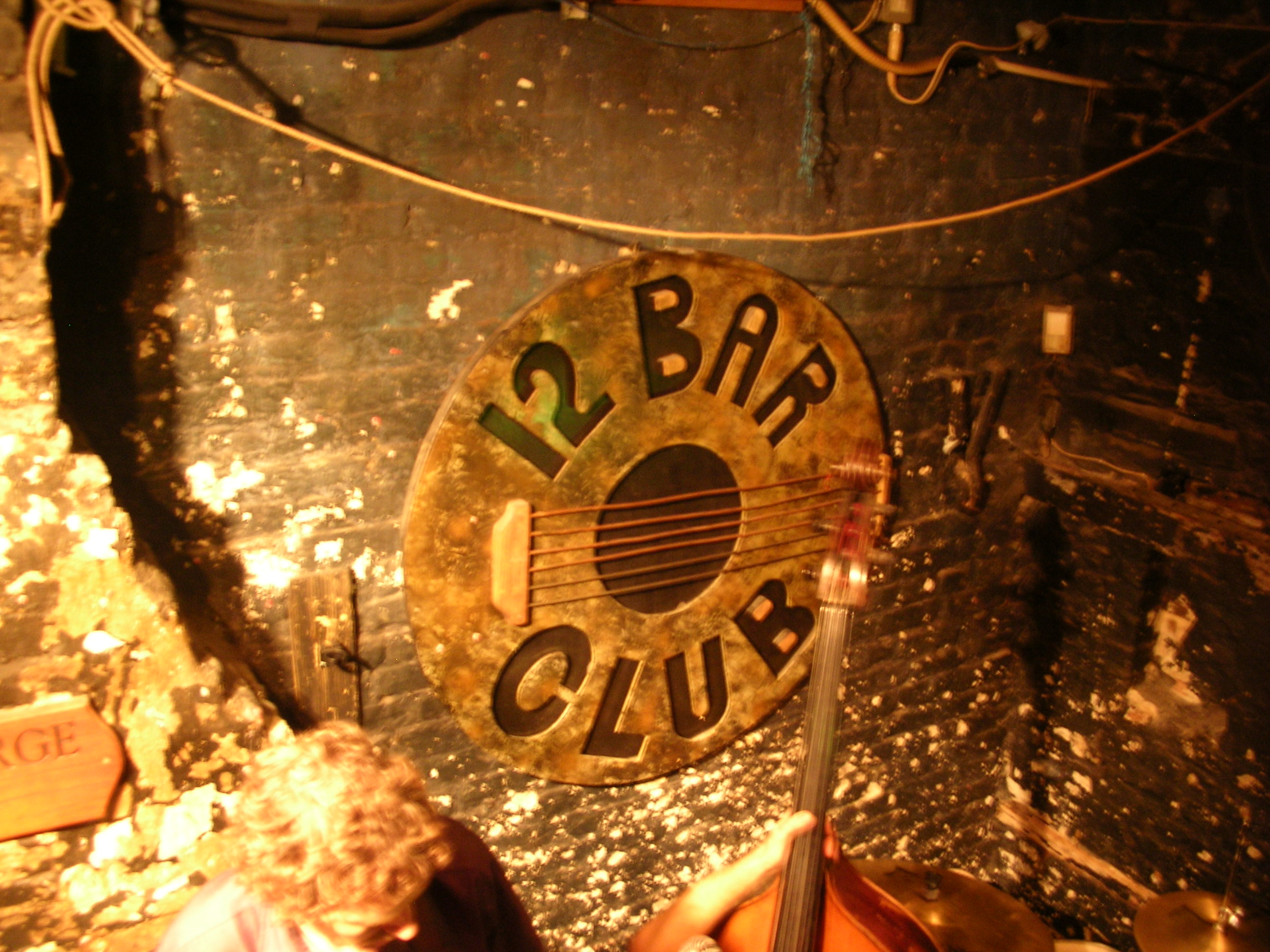 12 Bar Club, London. Photograph by Jonathan Bowen, 2006.